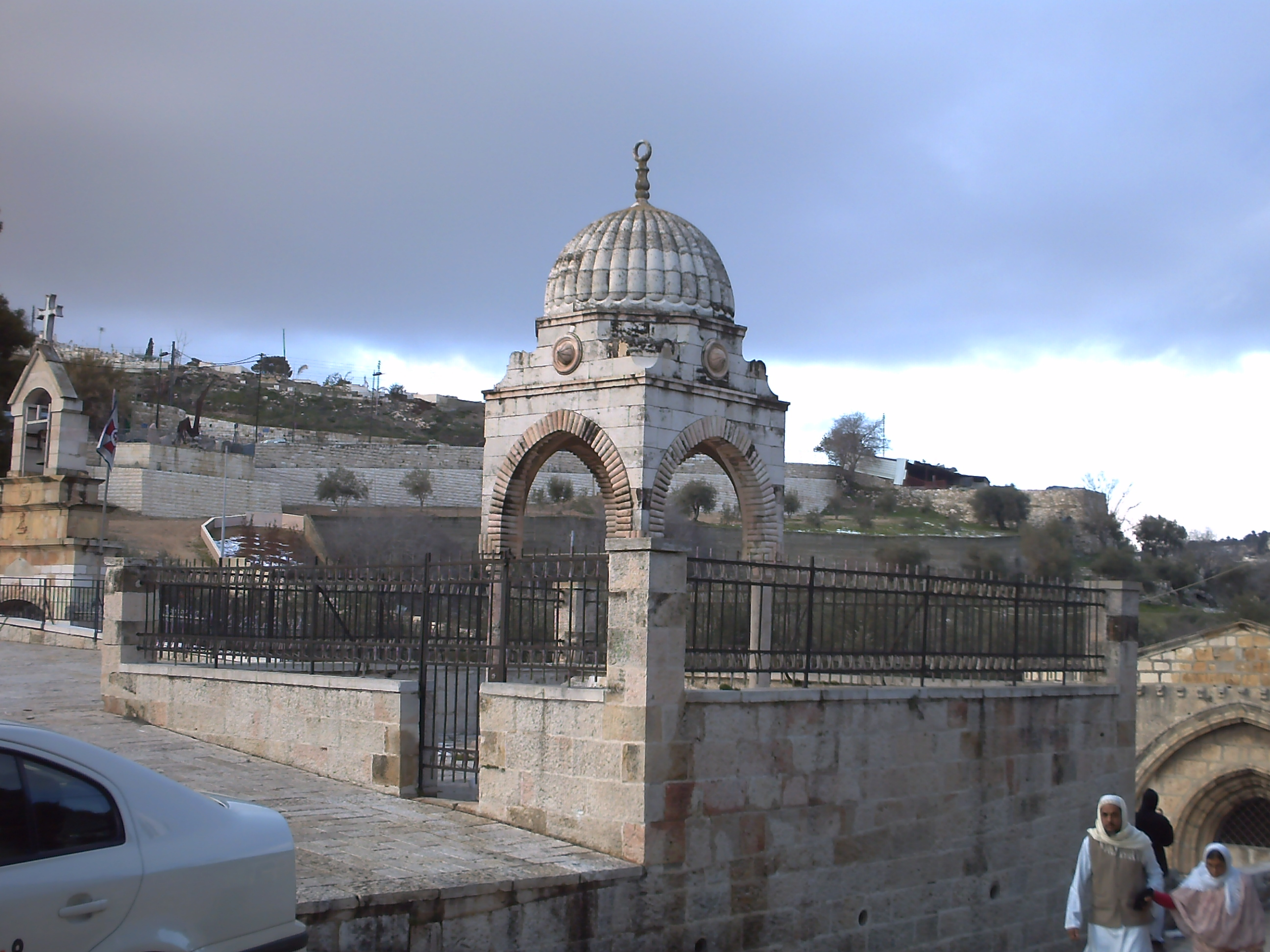 Muslim's tomb near The Tomb of Virgin Mary